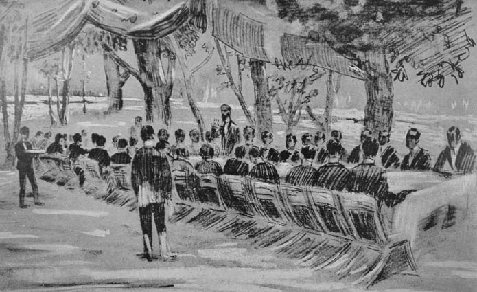 Georgios Roilos, The luncheon of the Sundesmos Ellinon Kallitexnon (League of Greek Artists) members at Kifissia, 1910